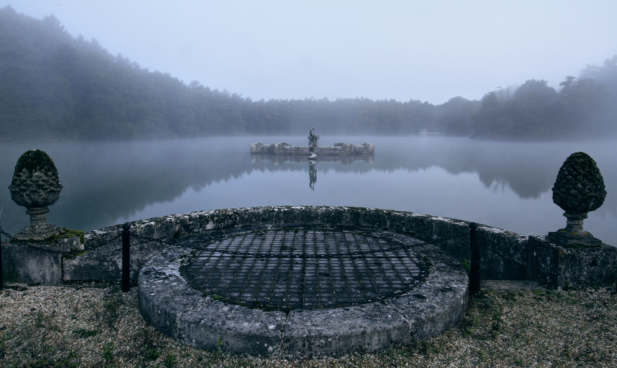 STATUE OF NEPTUNE on an ISLAND — in the WITLEY PARK landscape gardens, Surrey. WITH ATTACHED UNDERWATER TUNNEL, STAIRS, CIRCULAR AND RECTANGULAR CHAMBERS. Wikidata has entry Q17548516 with data related to this building.